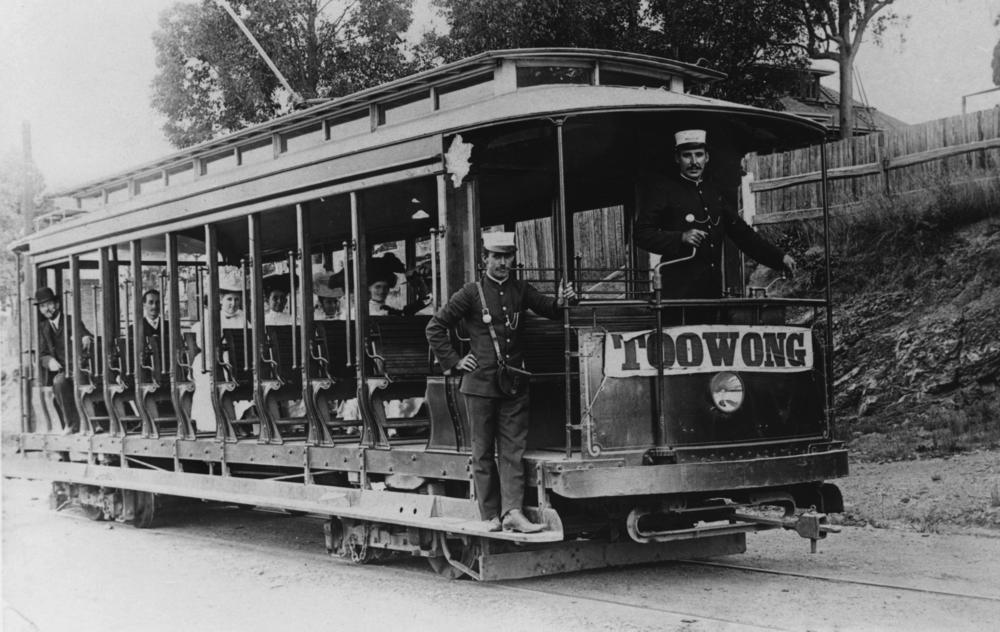 Brisbane 12 Bench "toastrack" tram operated by the Brisbane Tramways Company at the Toowong Terminus in Elizabeth Street Toowong.